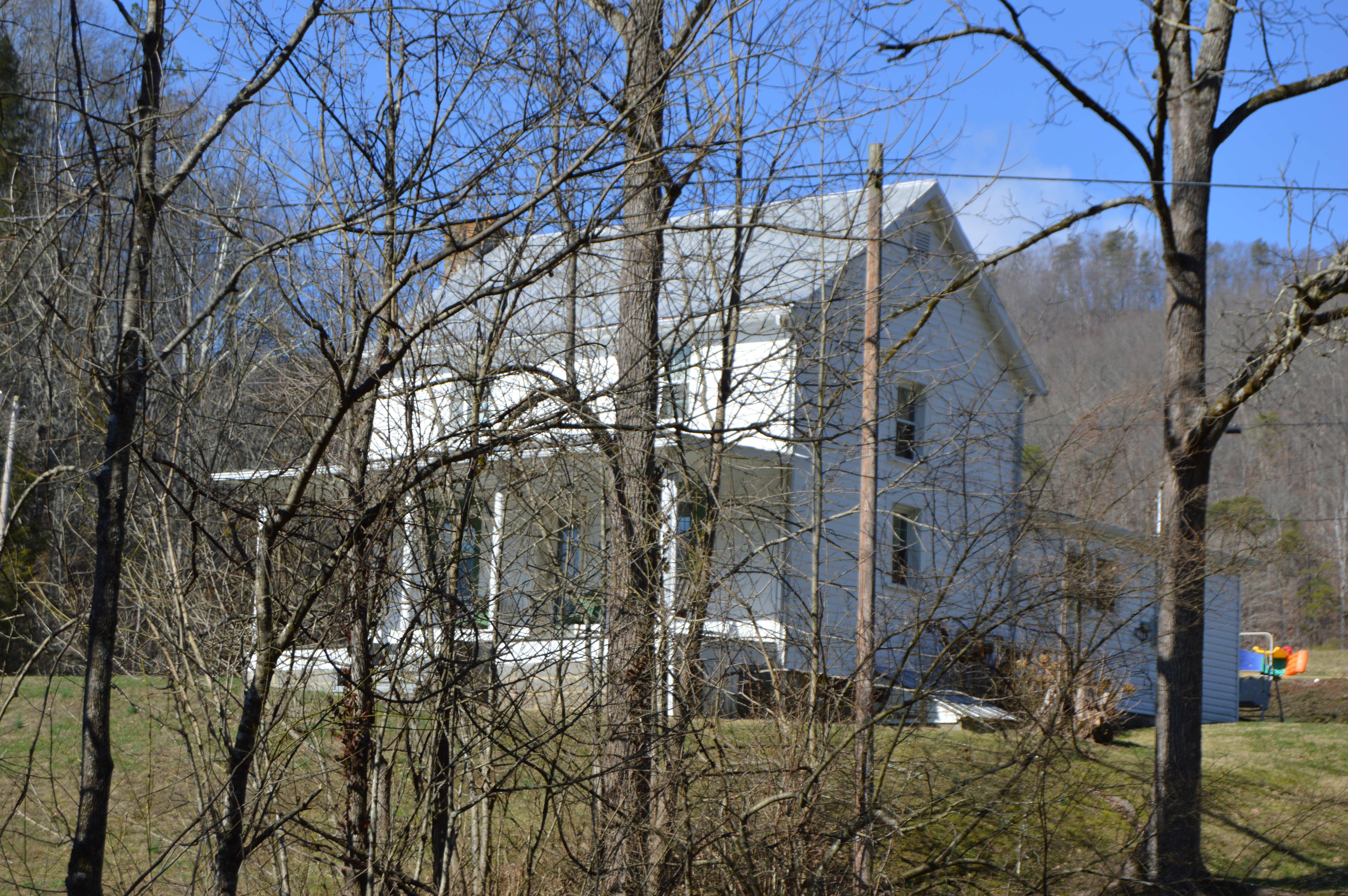 View through the trees of the Fulkerson-Hilton House, located on Dowell Gap Road east of Hiltons in Scott County, Virginia, United States. Built in 1800, it is listed on the National Register of Historic Places.